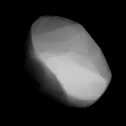 3D convex shape model of 567 Eleutheria, computed using light curve inversion techniques. J. Hanuš, J. Ďurech, M. Brož, B. D. Warner (June 2011). "A study of asteroid pole-latitude distribution based on an extended set of shape models derived by the lightcurve inversion method". Astronomy and Astrophysics 530: A134. ISSN 0004-6361. arXiv